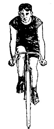 Bicycle racer "Harry Wheeler" on his English racer